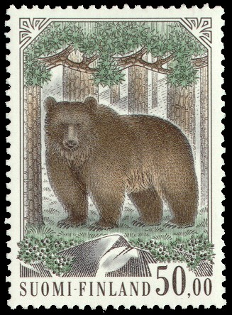 Postage stamp depicting the Finnish national animal, Ursus arctos